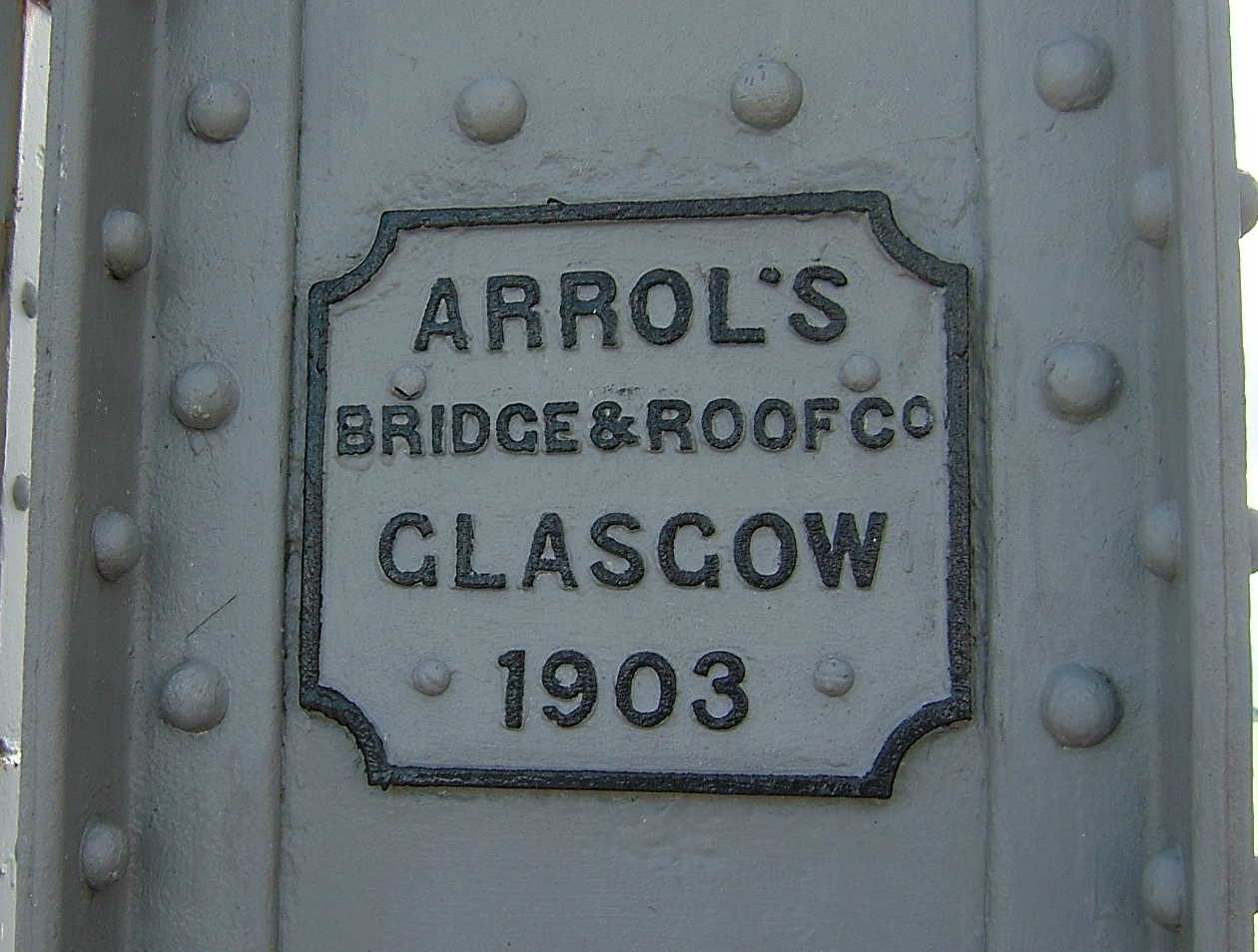 Builders' plate on Connel Bridge.